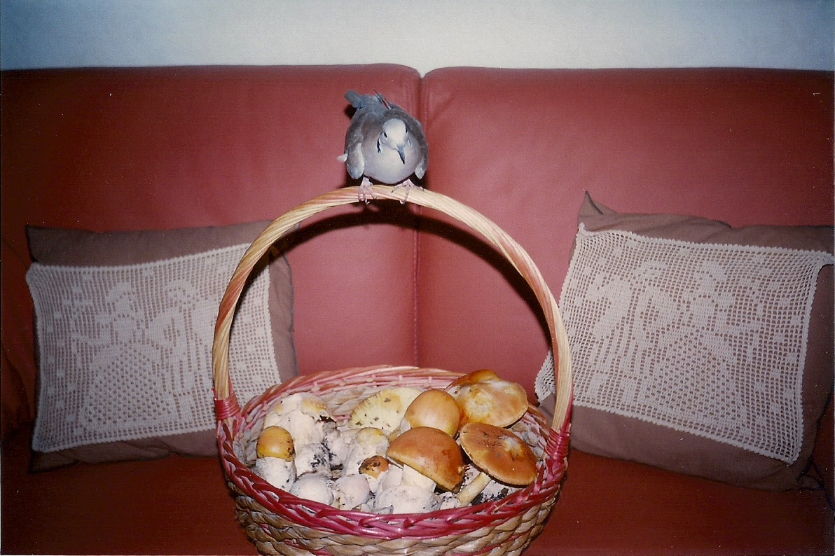 The Amanita caesarea, commonly known as Caesar's mushroom, is one of the most appreciated and sought-after edible mushrooms, which is eaten also raw with salad by many people (the whole sprinkled with a few drops of extra virgin olive oil and accompanied with some slivers of hard cheese). The ancient Romans called it the “Gods’ food” for Its deliciousness.